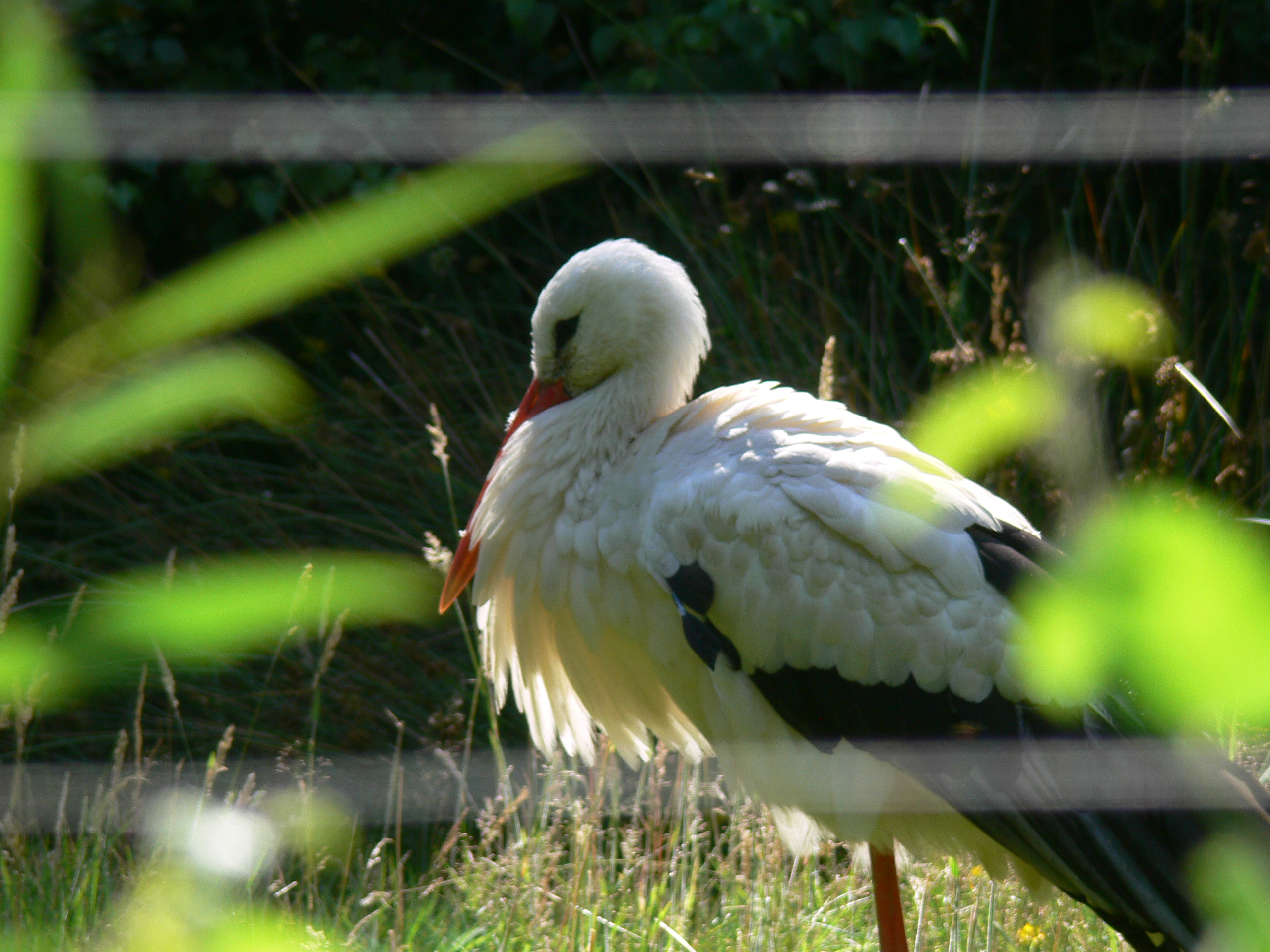 White Stork (Ciconia ciconia), Wildwood Discovery Park recently called Wildwood Trust, in Kent (United Kingdom)